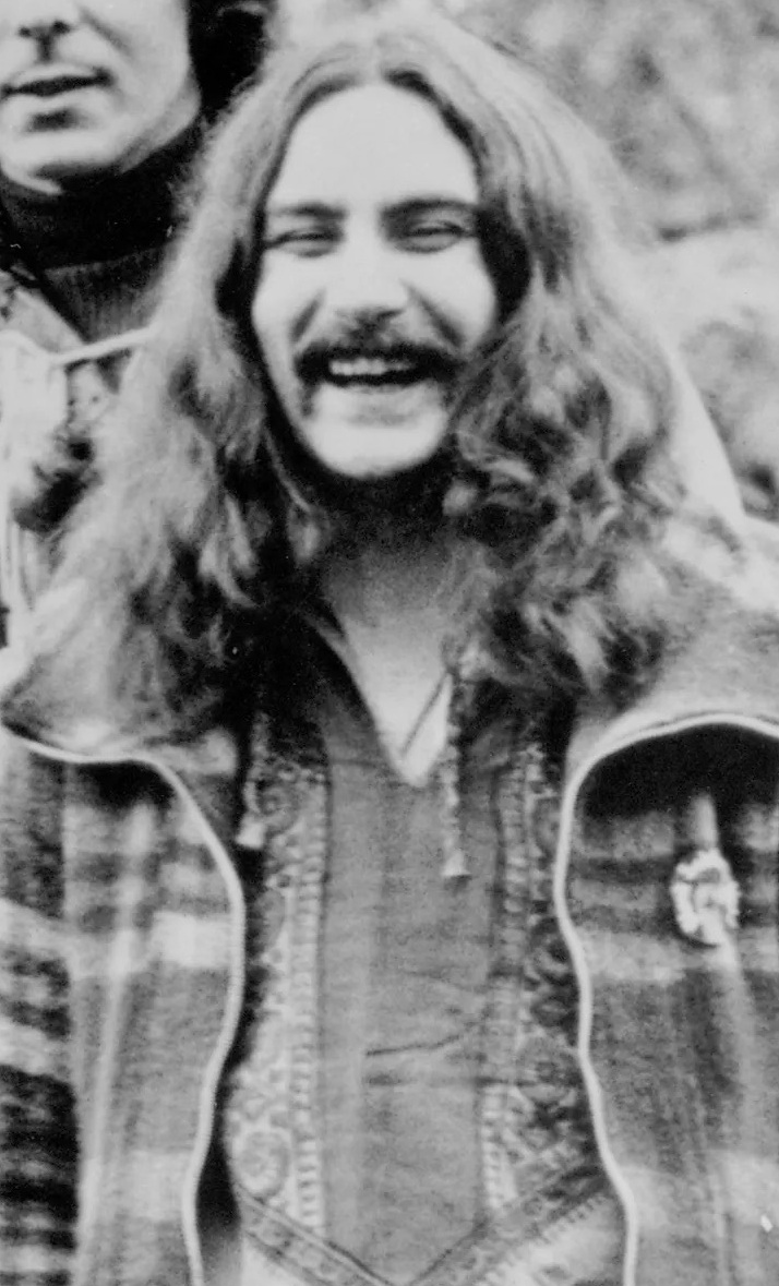 British heavy metal band Black Sabbath.